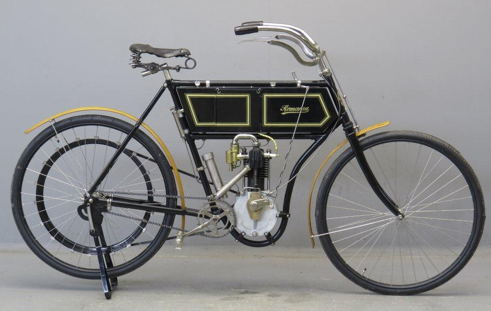 Romania 1¾hp motorcycle from 1903